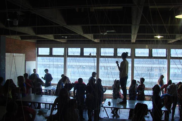 Initial activity . CBC Workshop proyectual FADU